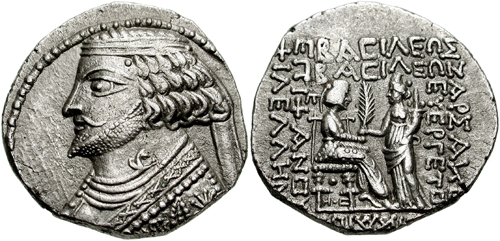 Coin of the Parthia king Phraates IV